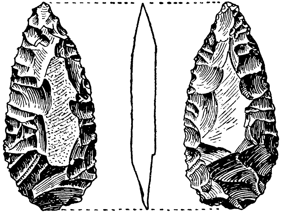 Paleolithic biface from the Middle Stone Age. Site S'baikia, Algeria (collection M. Reygasse)